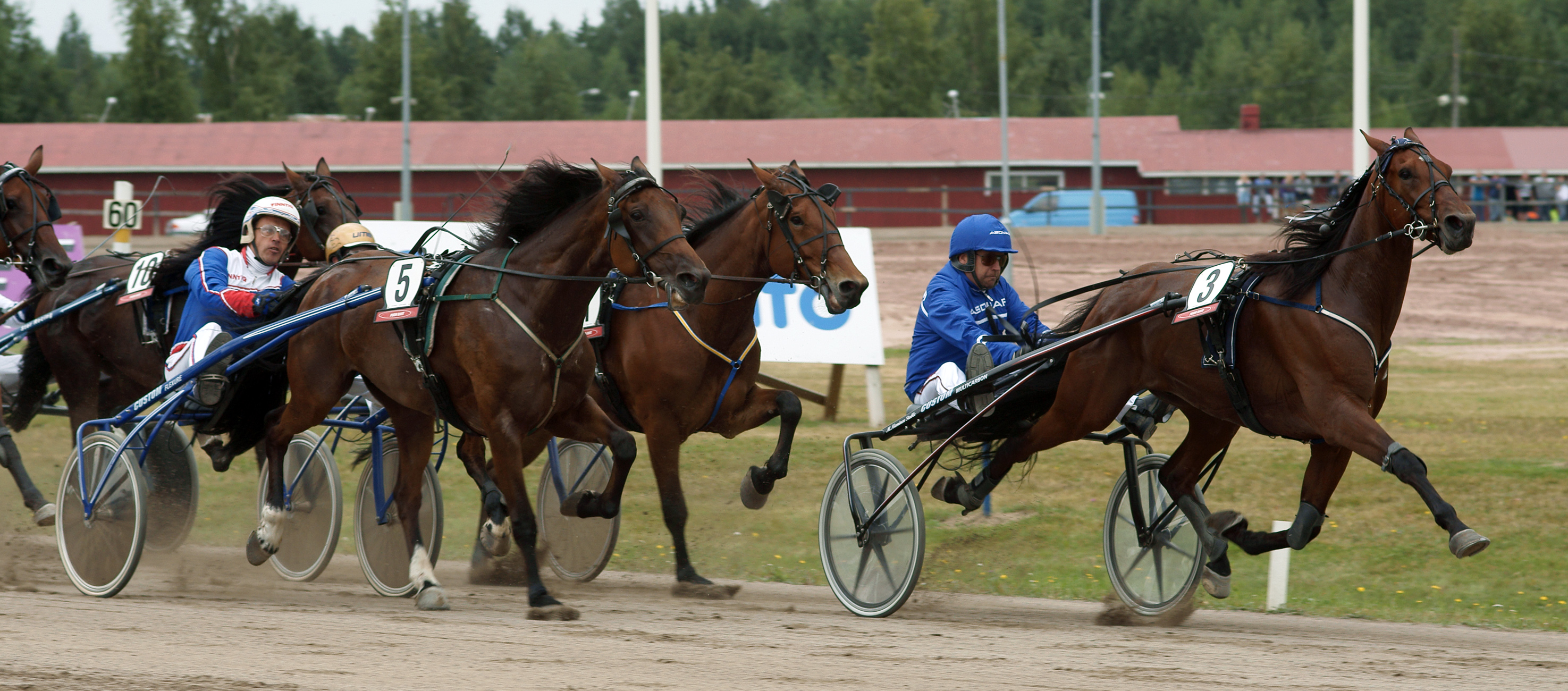 Start number 5 in Pori harness racing track 6.8.2011. Horse number 3 is Incredible Dream D with Markku Nieminen and number 5 is Dottie D.Kemp with Tuomo Ojanperä.